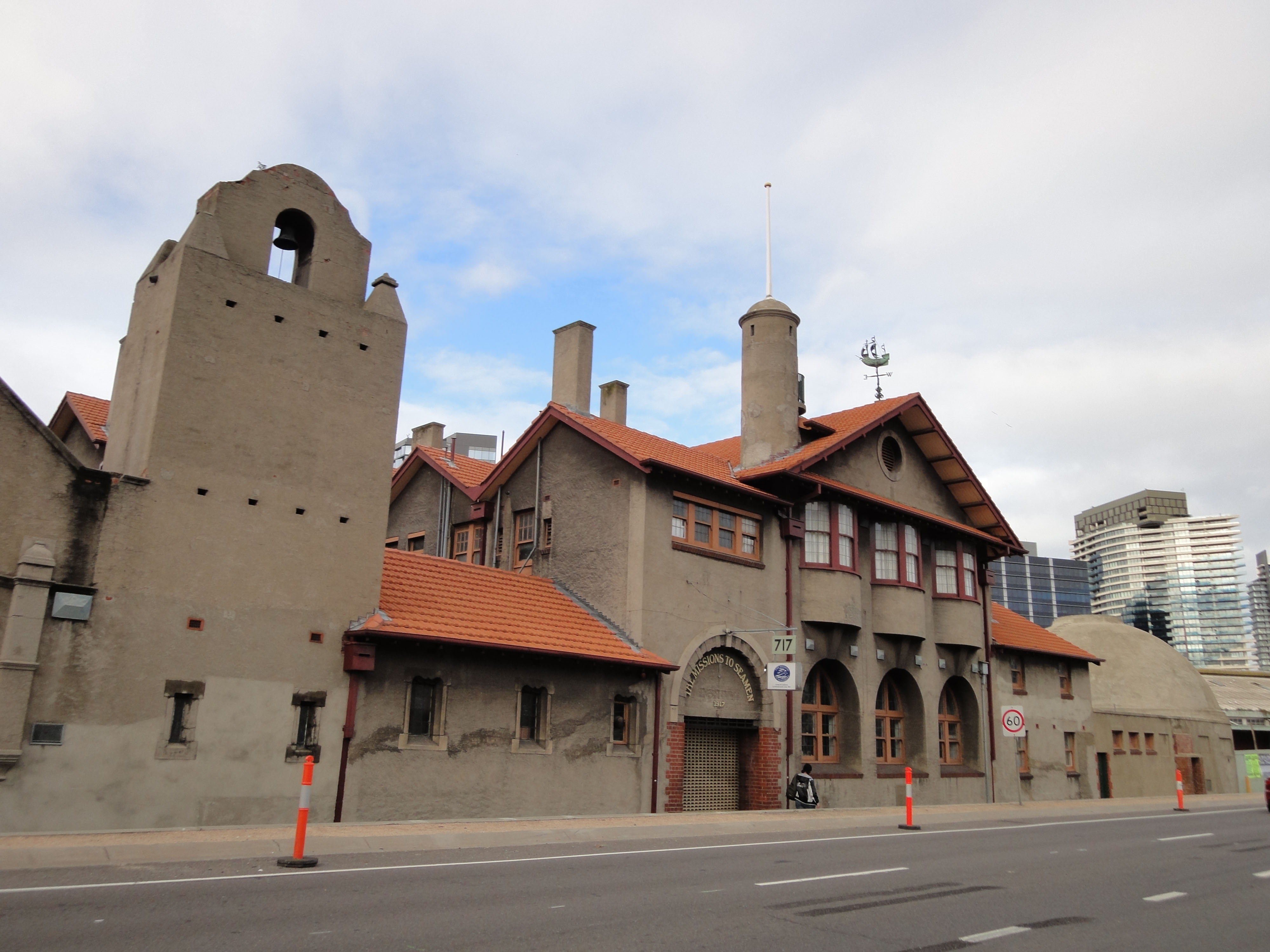 Mission to Seamen 717 Flinders Street Docklands